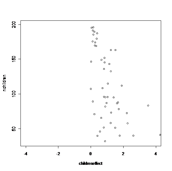 A second funnelplot to visualize the filedrawer problem